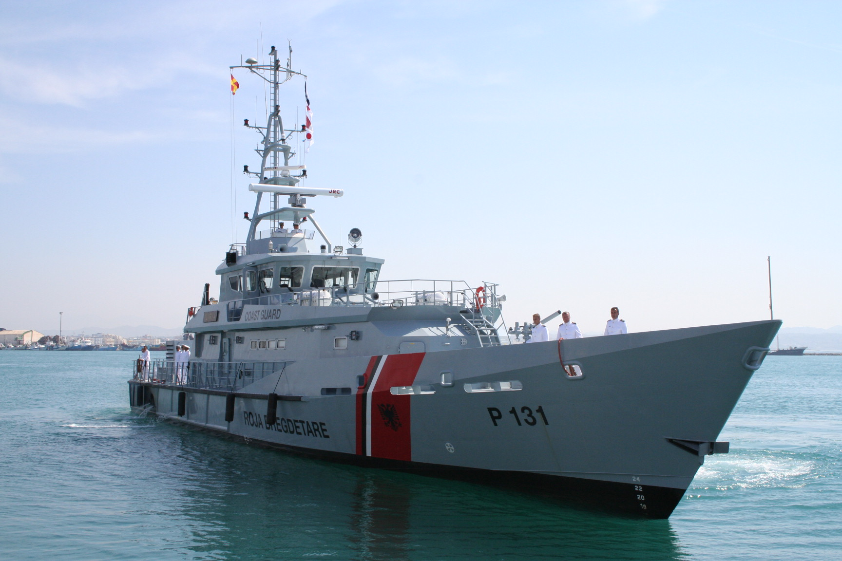 The first Patrol Boat Class Damen Stan Type 047 named Iliria to enter service with AAF on 5 September 2008. IMO-number: 9524164 MMSI-nubmer: 201100109 Callsign: ZAD102 Length: 42 m Beam: 7 m